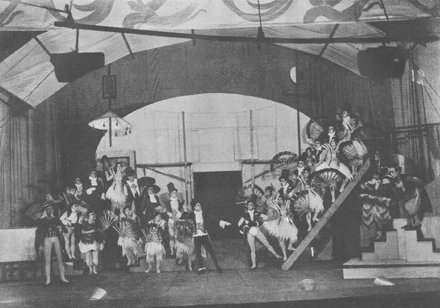 Scene from the play “Giroflé-Girofla” Tairov's Chamber Theatre. Moscow. 1922 Scenography of the play: George Yakulov